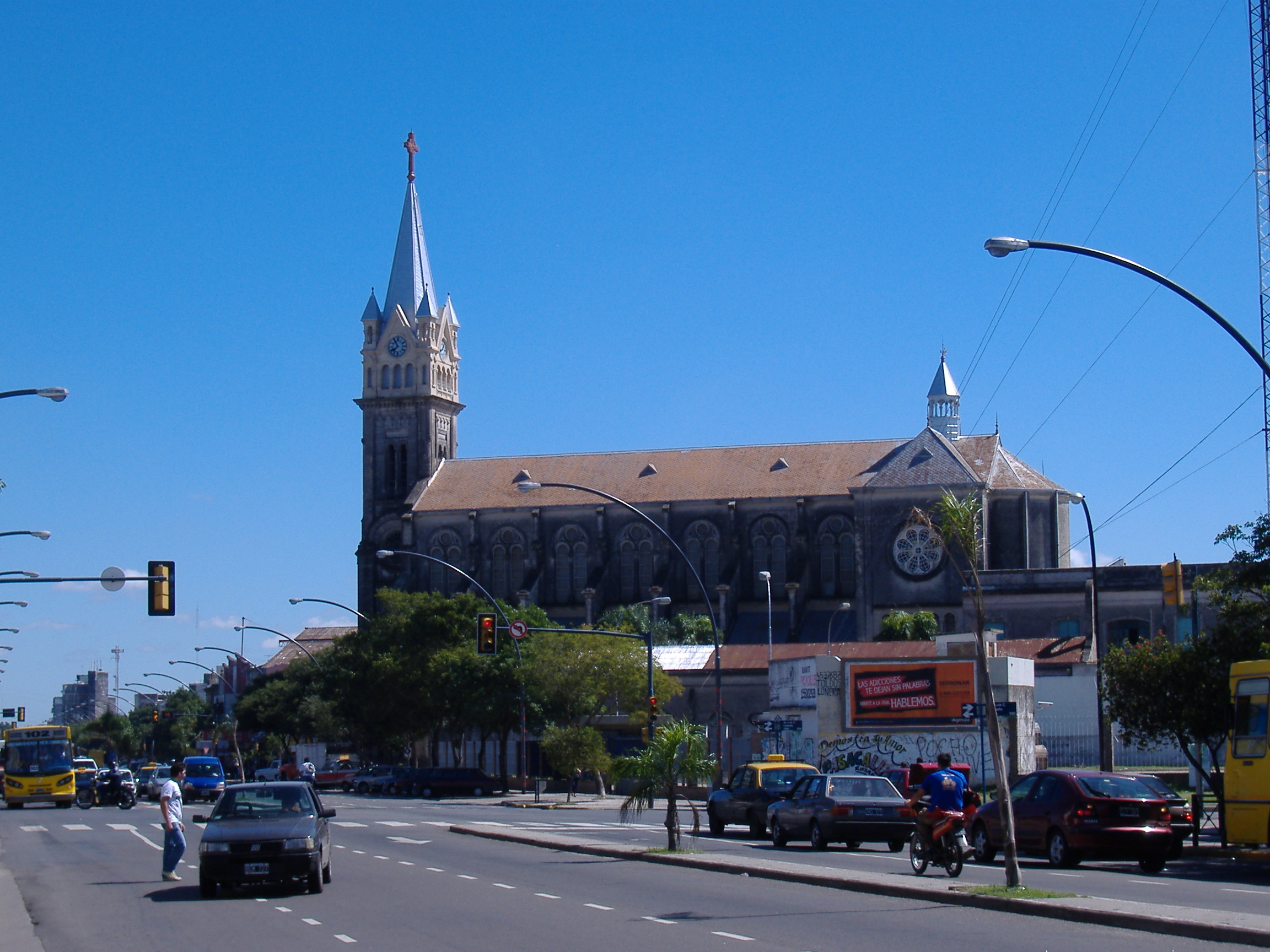 Parroquia del Perpetuo Socorro, a church in Rosario, Argentina. It is located in the Lisandro de la Torre neighborhood (in the city's northeast), on 580 Alberdi Avenue.